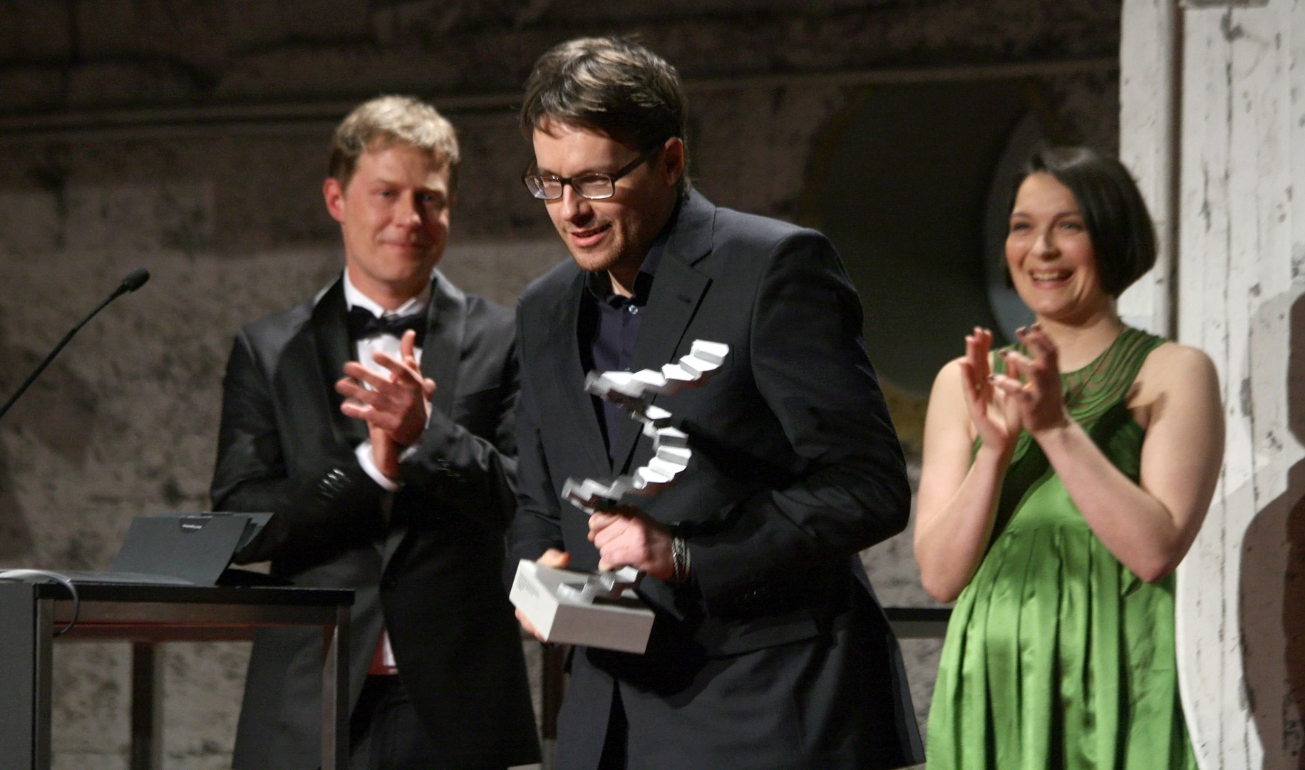 Alarich Lenz and Barbara Romaner; Austrian Film Awards 2012 (Vienna).